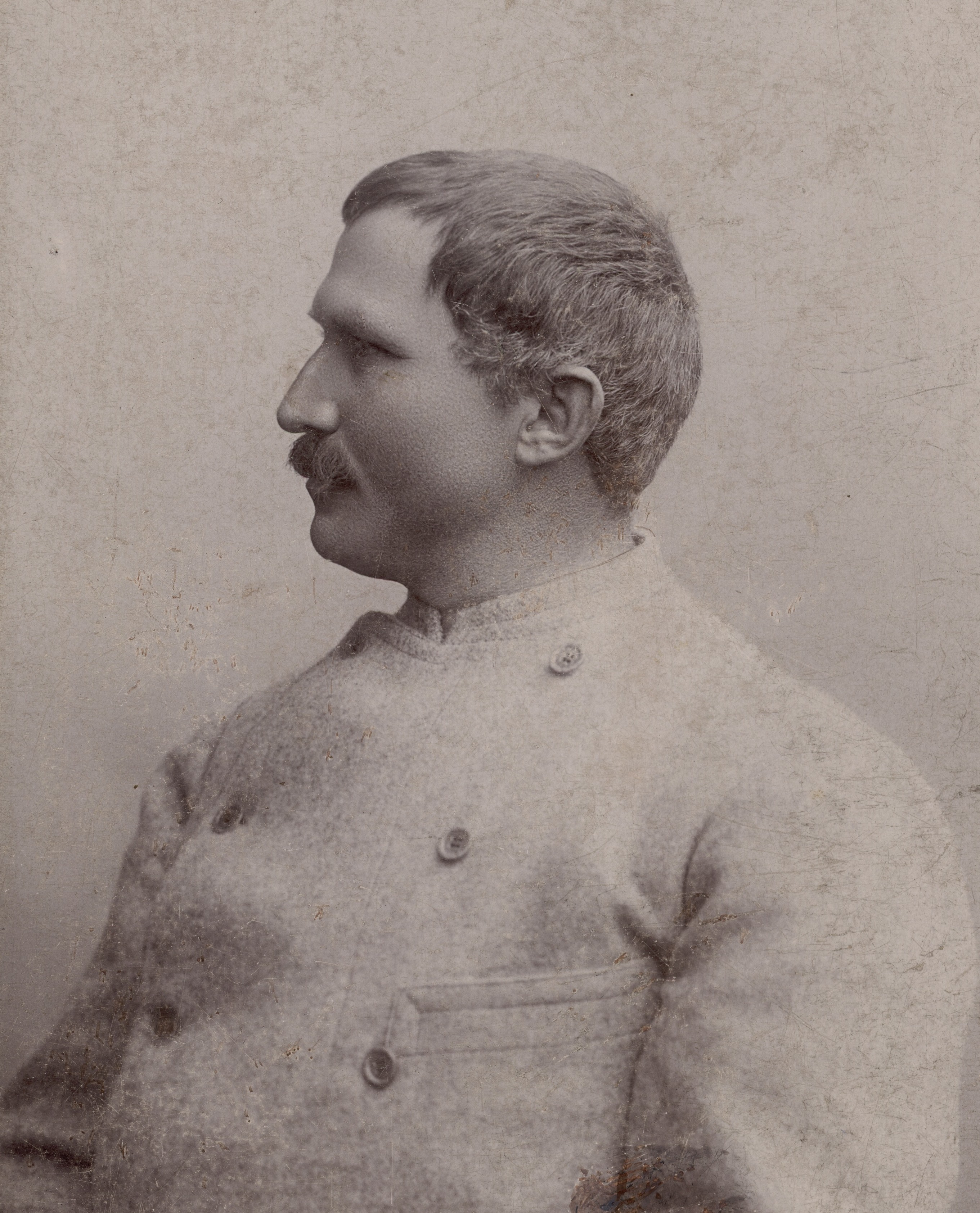 Fredrik Hjalmar Johansen, officer, member of the Norwegian Arctic expedition 1893-1896, from which, together with Nansen, he tried to reach the North Pole on skis.